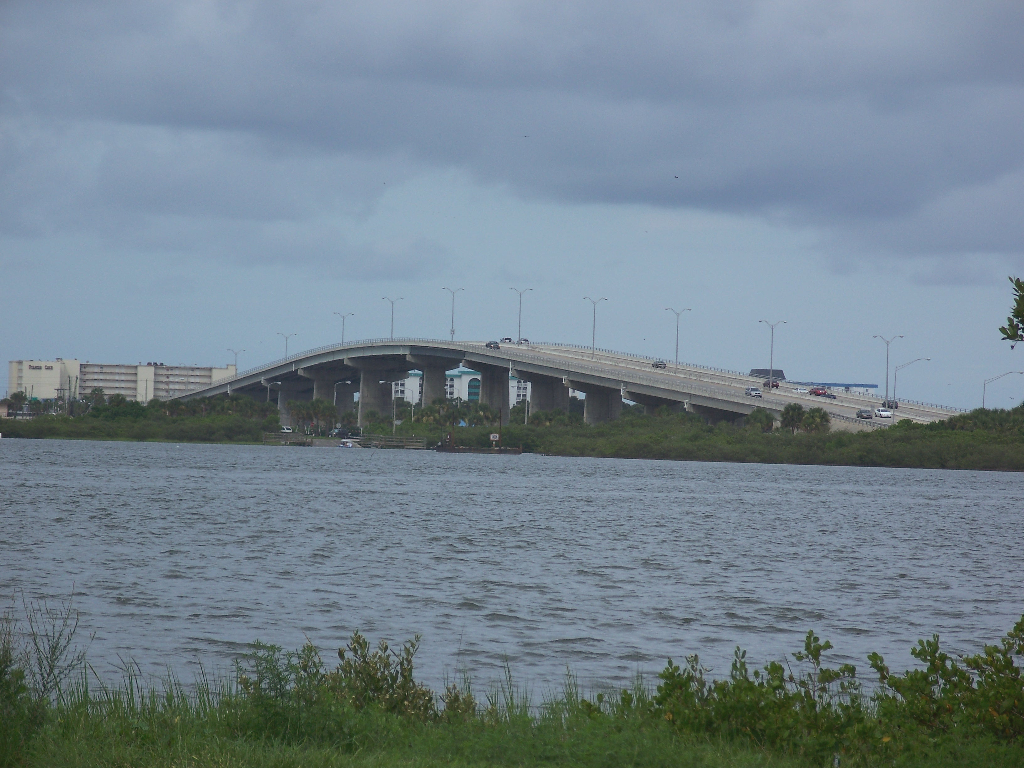 Dunlawton Avenue/A1A bridge over the Halifax River, in Port Orange, Florida